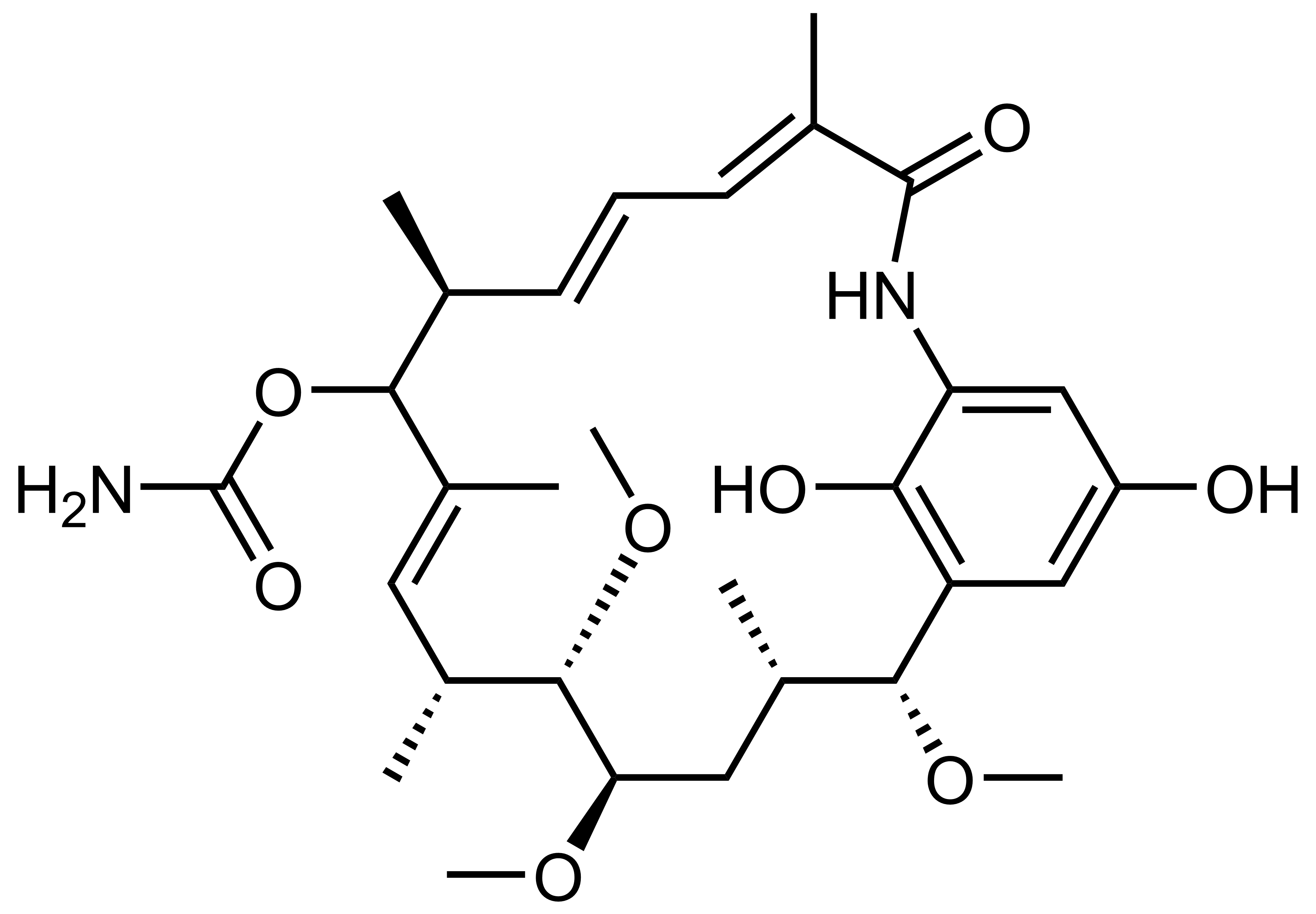 Macbecin II molecule